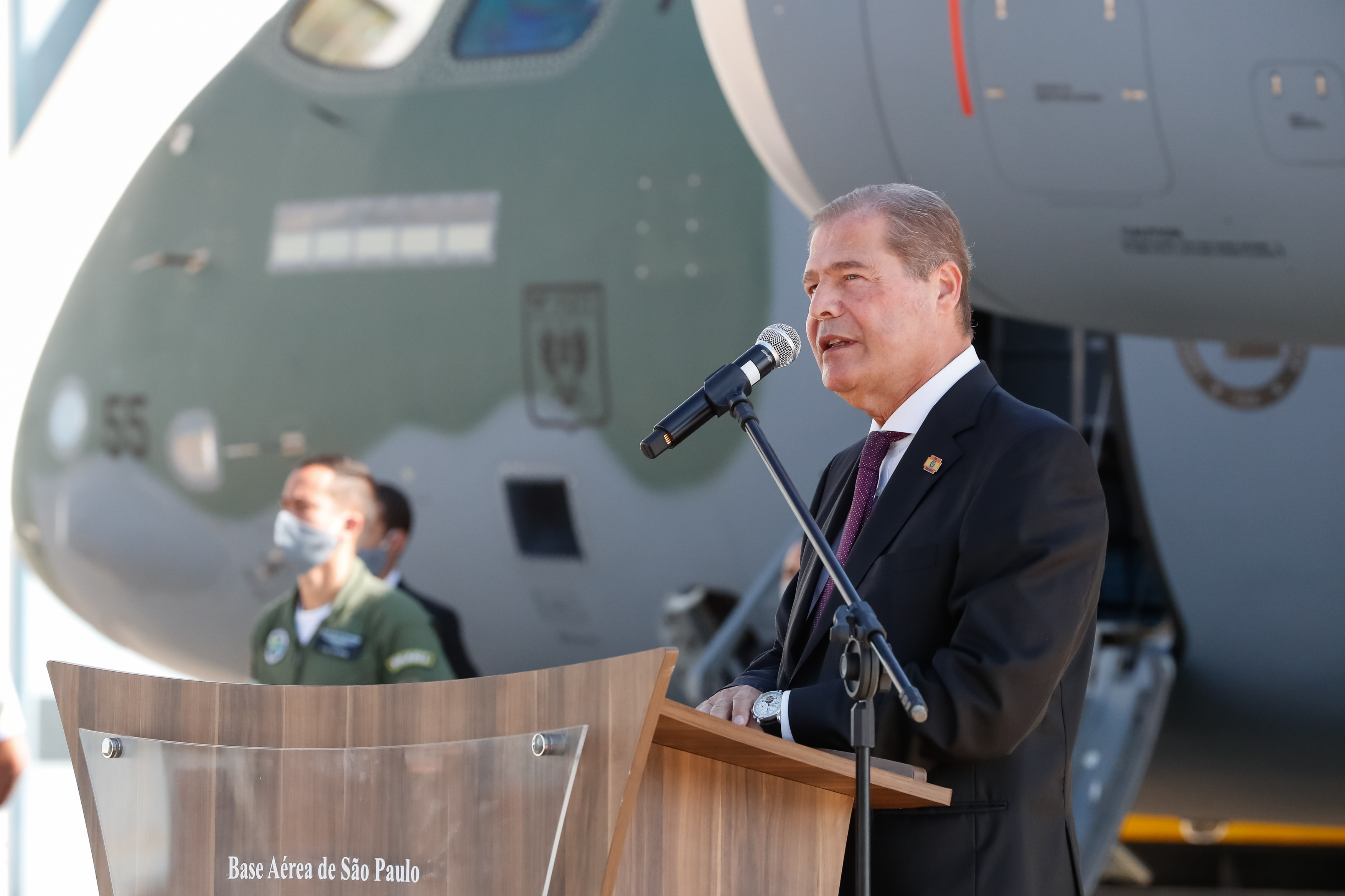 (São Paulo - SP, 12/08/2020) Palavras do senhor Joseph Sayah, Embaixador do Líbano no Brasil. Foto: Alan Santos/PR